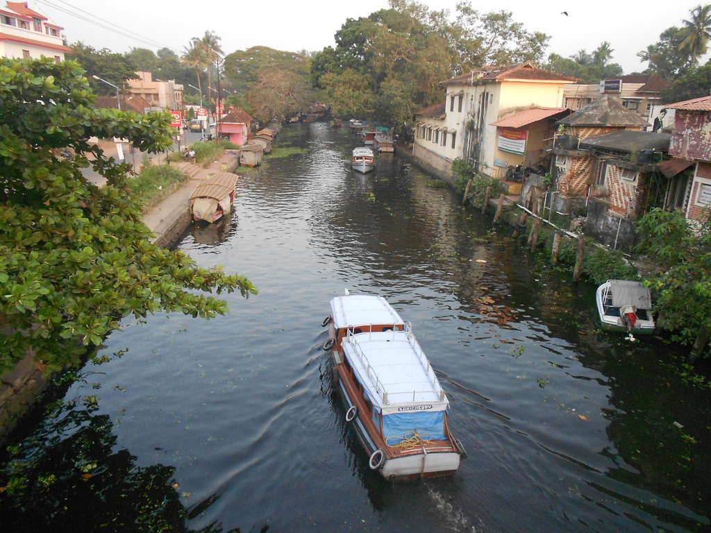 allepy tourism boat ride